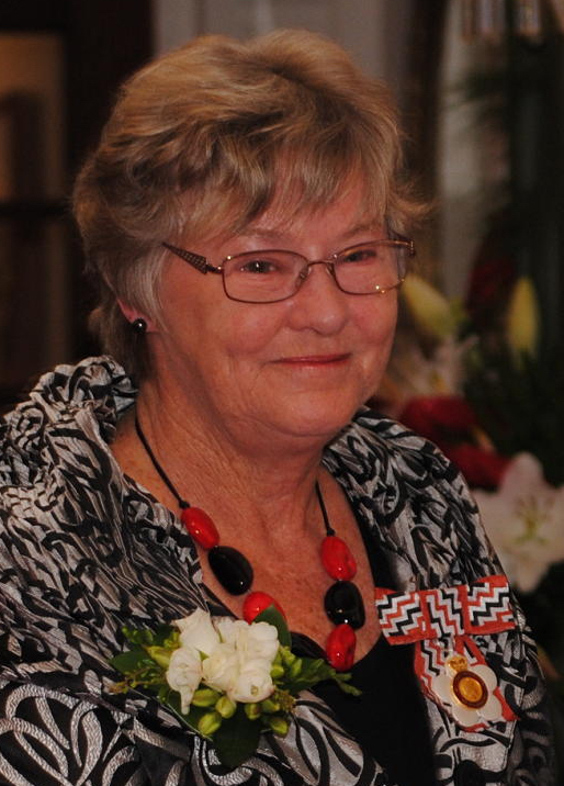 Jenny Brash, after her investiture as a Companion of the Queen's Service Order, for services to local body affairs, on 13 April 2011